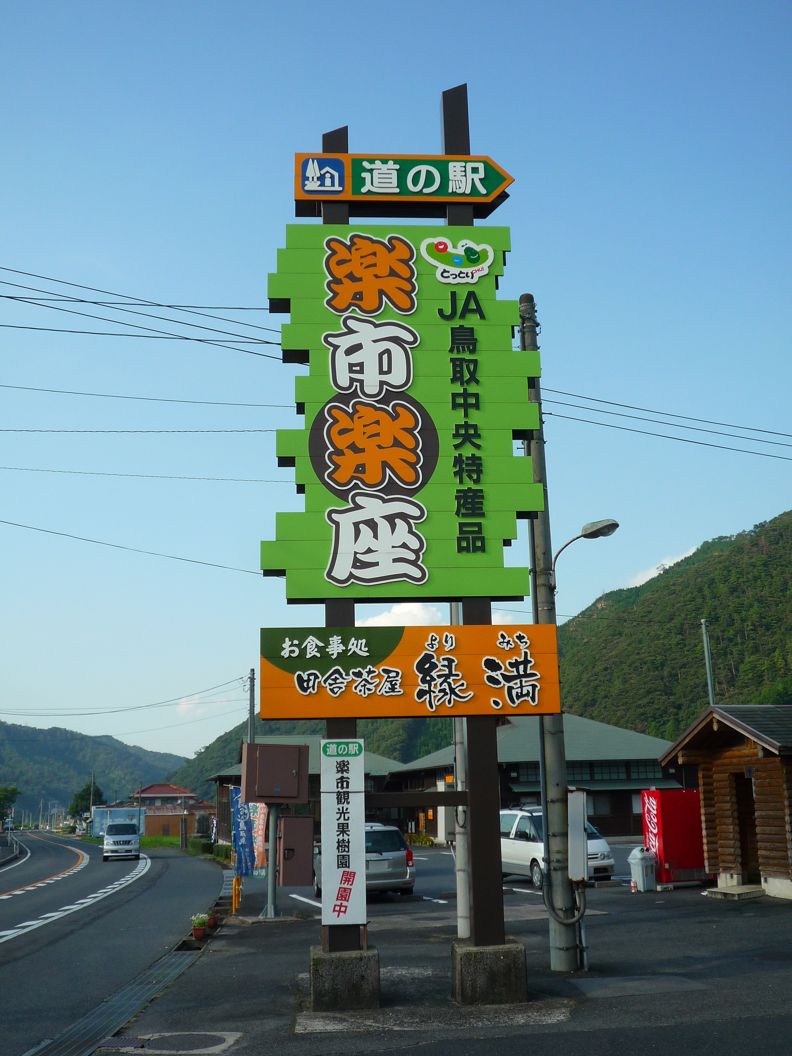 Name board of Roadside Station Misasa Rakuichi Rakuza at Misasa Town, Tottori Prefecture.